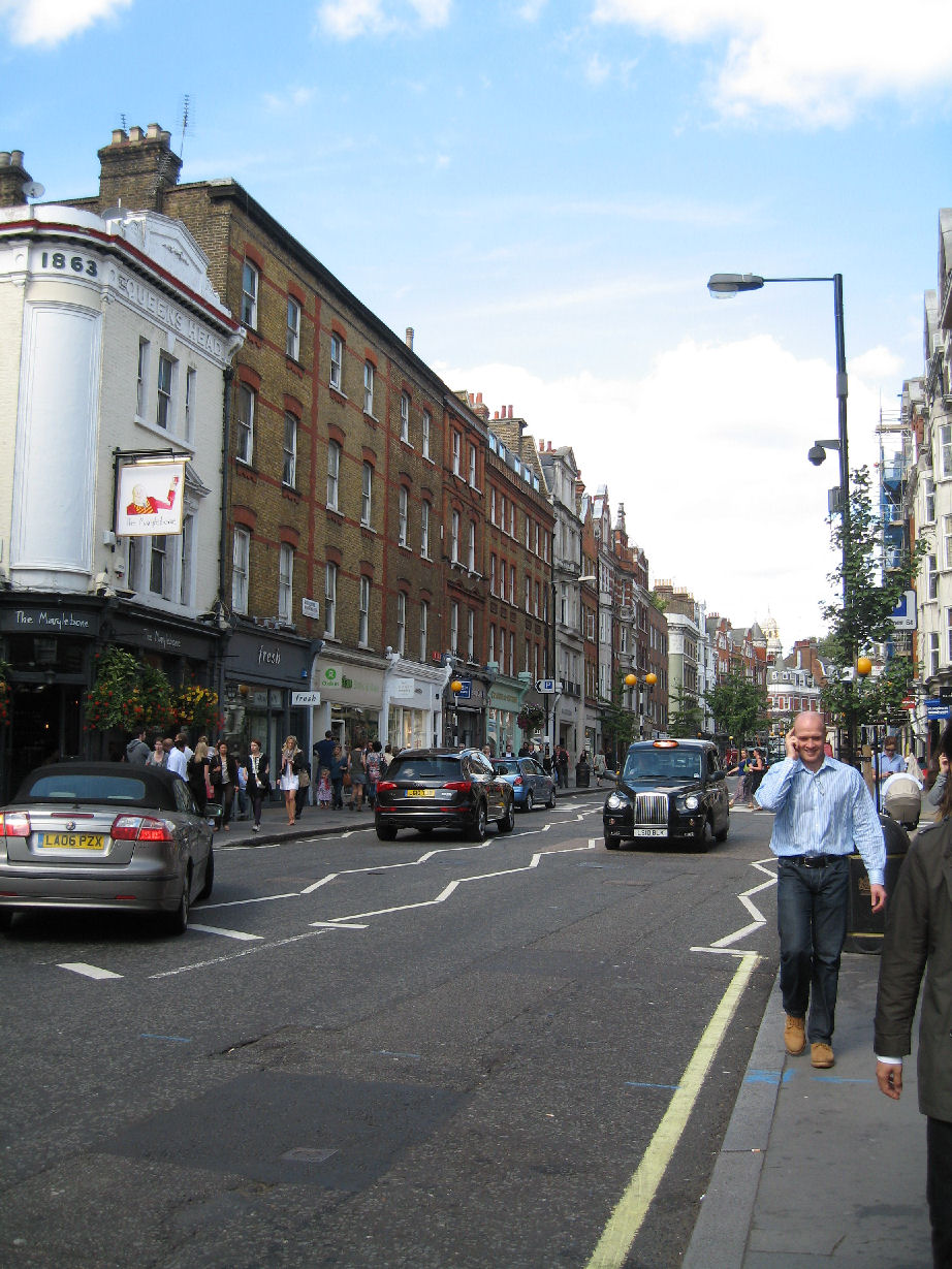 Marylebone High Street, looking north